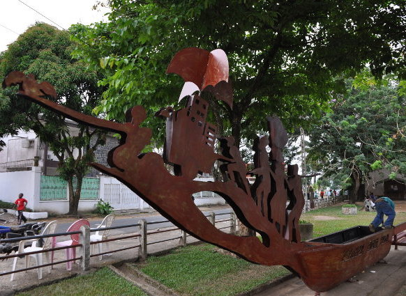 SUD Salon Urbain de Douala 2010. Triennial festival promoted by doual'art.